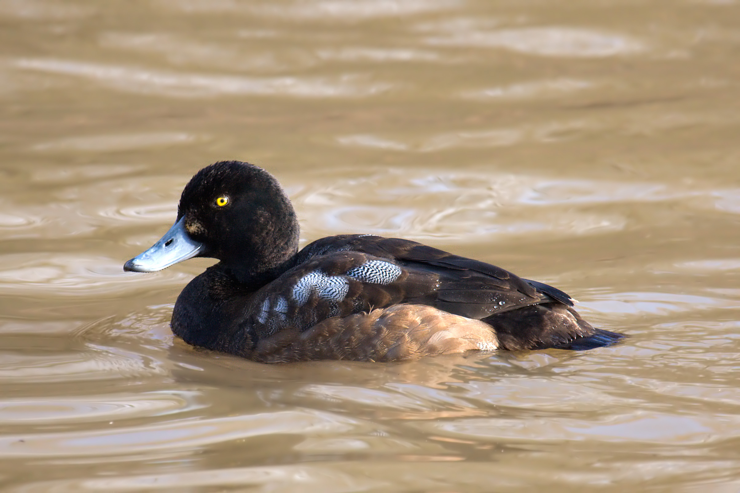 male Greater Scaup 2. cy (winter)